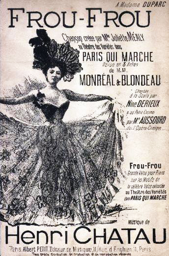 Sheet music cover of Frou-Frou